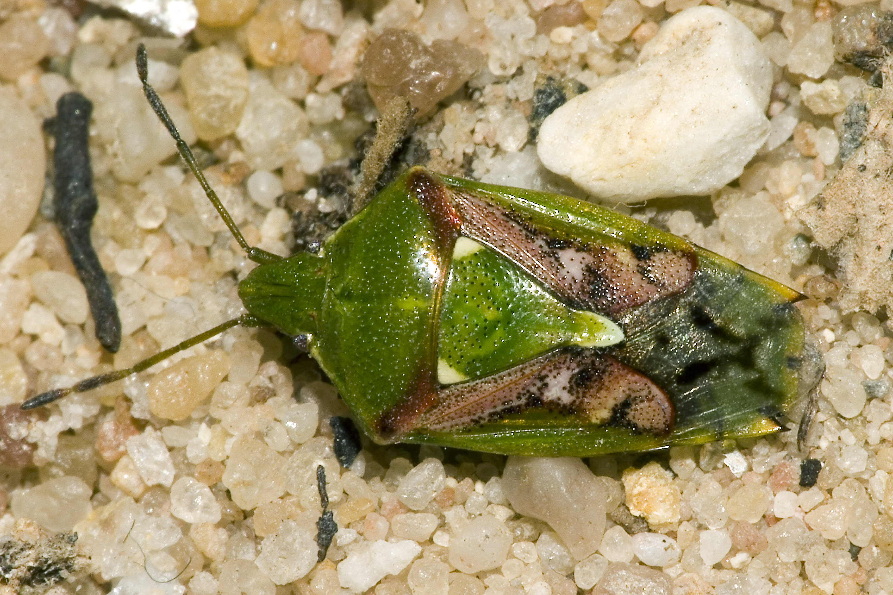 Please report references to .